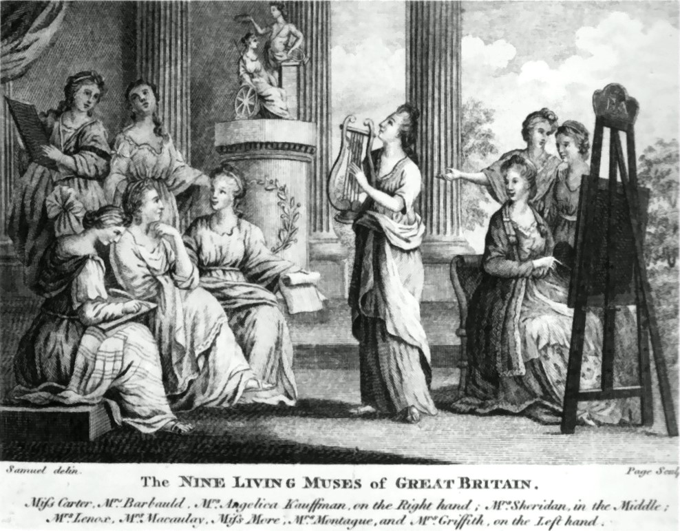 The Nine Muses of Great Britain (after similar painting by Richard Samuel) ref npg inc. Elizabeth Carter, Angelica Kauffman, Anna Letitia Barbauld, Catharine Macaulay, Elizabeth Montagu, Elizabeth Griffith, Hannah More, et al